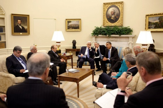 President Barack Obama meets with Palestinian Authority President Mahmoud Abbas in the Oval Office Thursday, May 28, 2009. The man sitting between them is an interpreter.